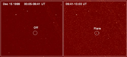 The first flare ever seen from a brown dwarf. For the first 9 hours and 36 minutes of the observation, no X-rays were detected from Brown Dwarf LP 944-20 (left). Then the brown dwarf turned on with a bright X-ray flare (right) that gradually diminished over the last few hours of the observation.